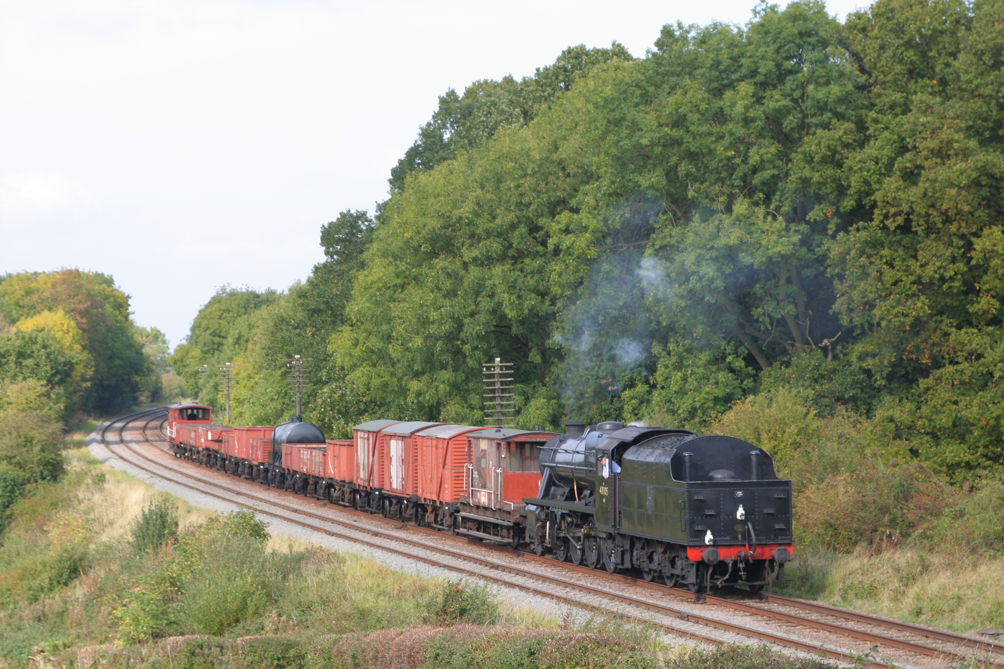 48305 heading south through Kinchley Lane with a mixed freight train.